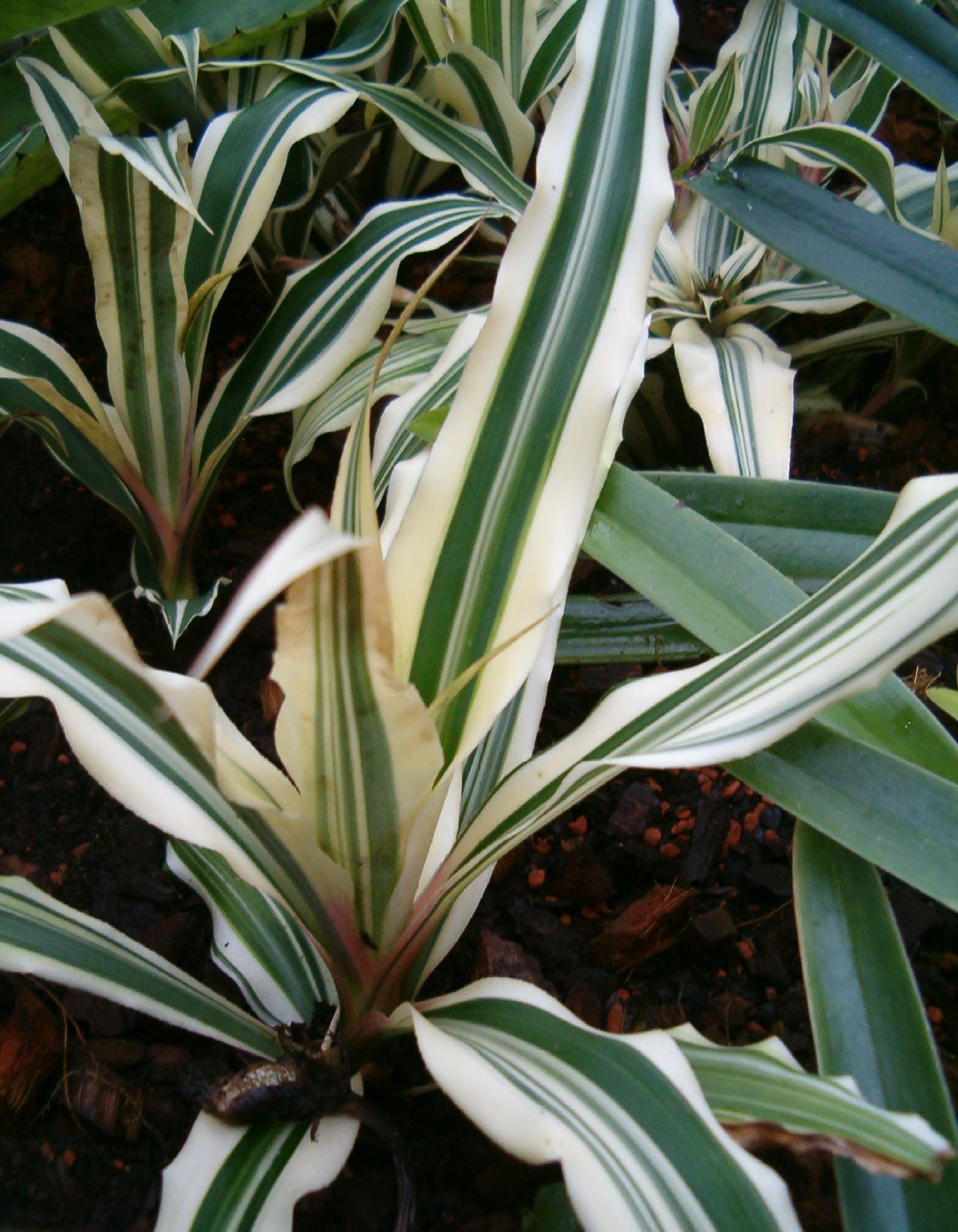 Location: Botanical Gardens Berlin Dahlem Habitus